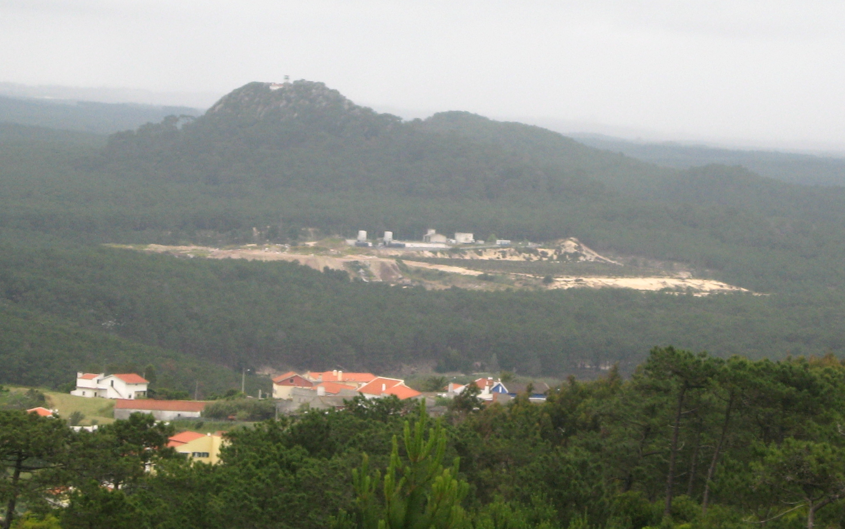 Nazaré, Portugal, mountain Sao Brás, from south; hermitage of D. Rodrigo (Spain)